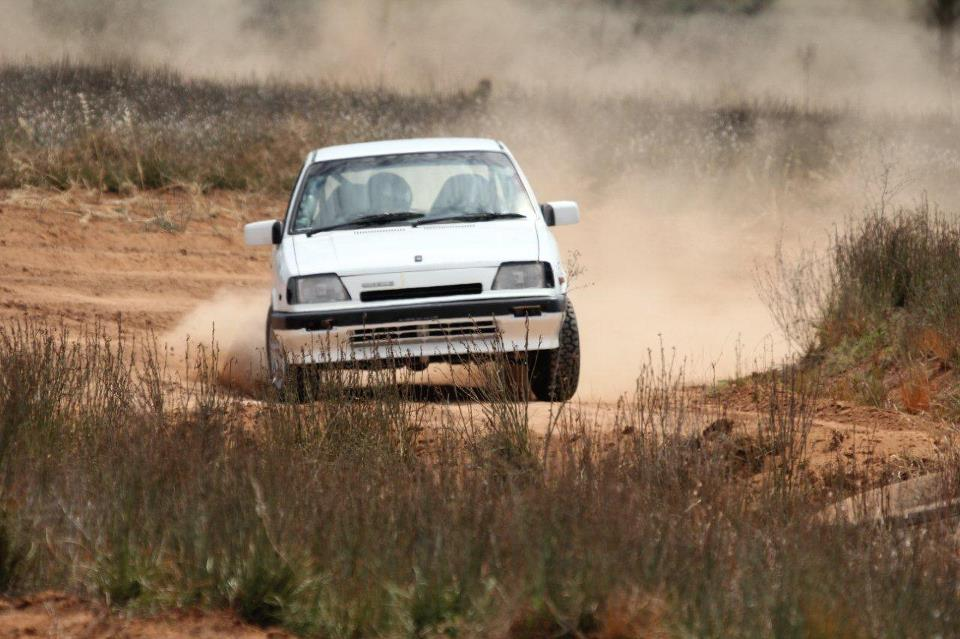 1986 Suzuki swift competing in autocross event